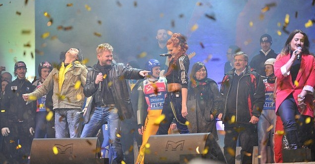 Party after Adam's Bull's Eye on 26 March 2011 in Zakopane. From the left: Martin Koch, Bjoern Einar Romoeren, Piotr Cugowski, Paweł Stasiak, Denis Kornilov, Dominika Gawęda, Anna Komorowska, Bronisław Komorowski, Stefan Hula; accompanied by some Polish singers.